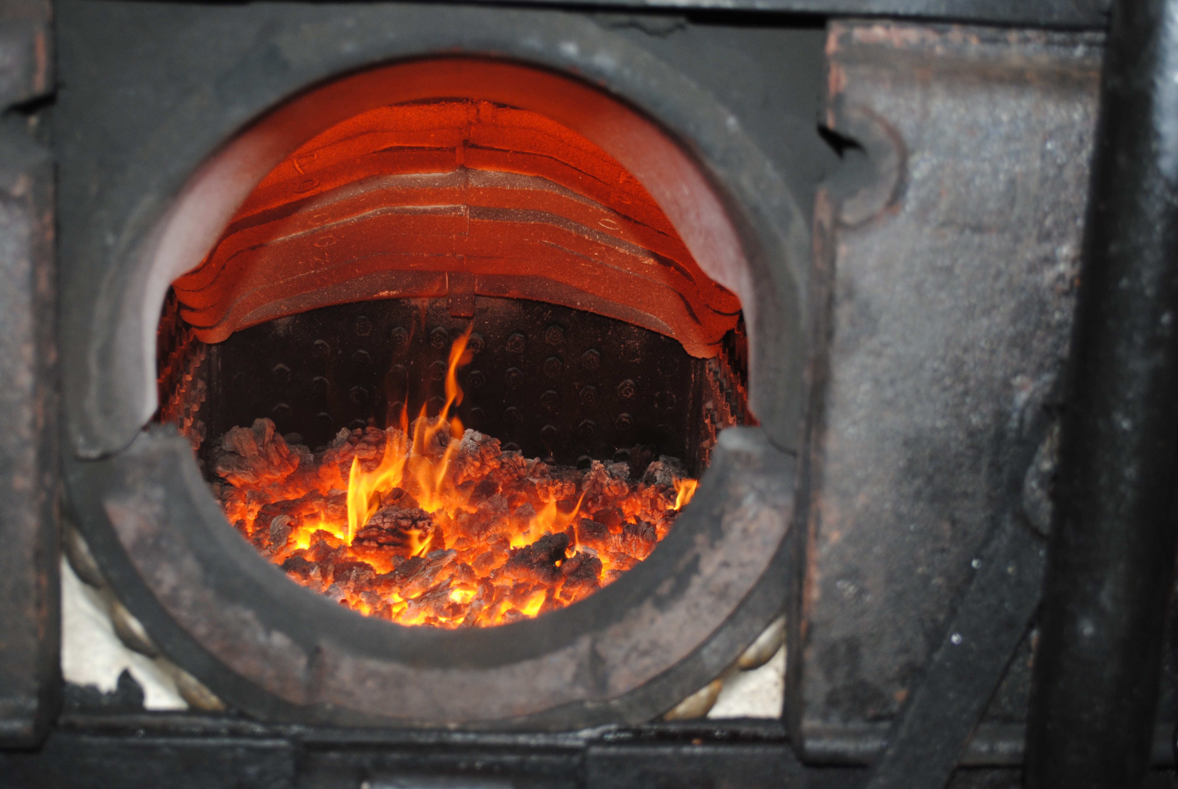 This photo shows the firebox of recently-restored GWR 6959 Modified Hall 6989 Wightwick Hall, currently operational at Buckinghamshire Railway Centre at Quainton Road.